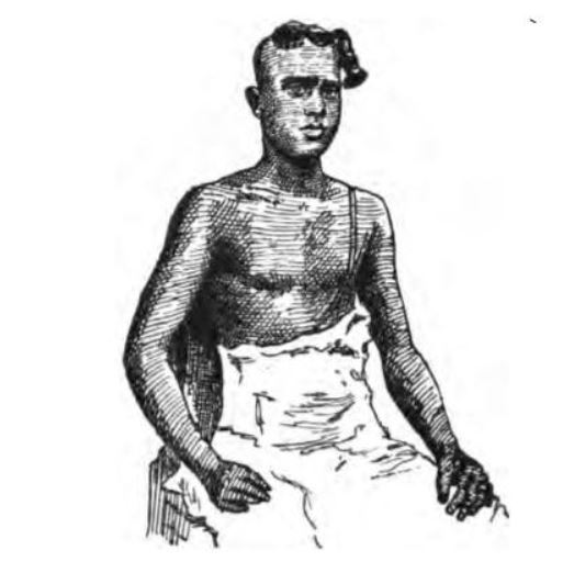 A drawing of a Nambudiri man, pg. 143 of Native Life in Travancore.